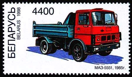 Stamp of Belarus